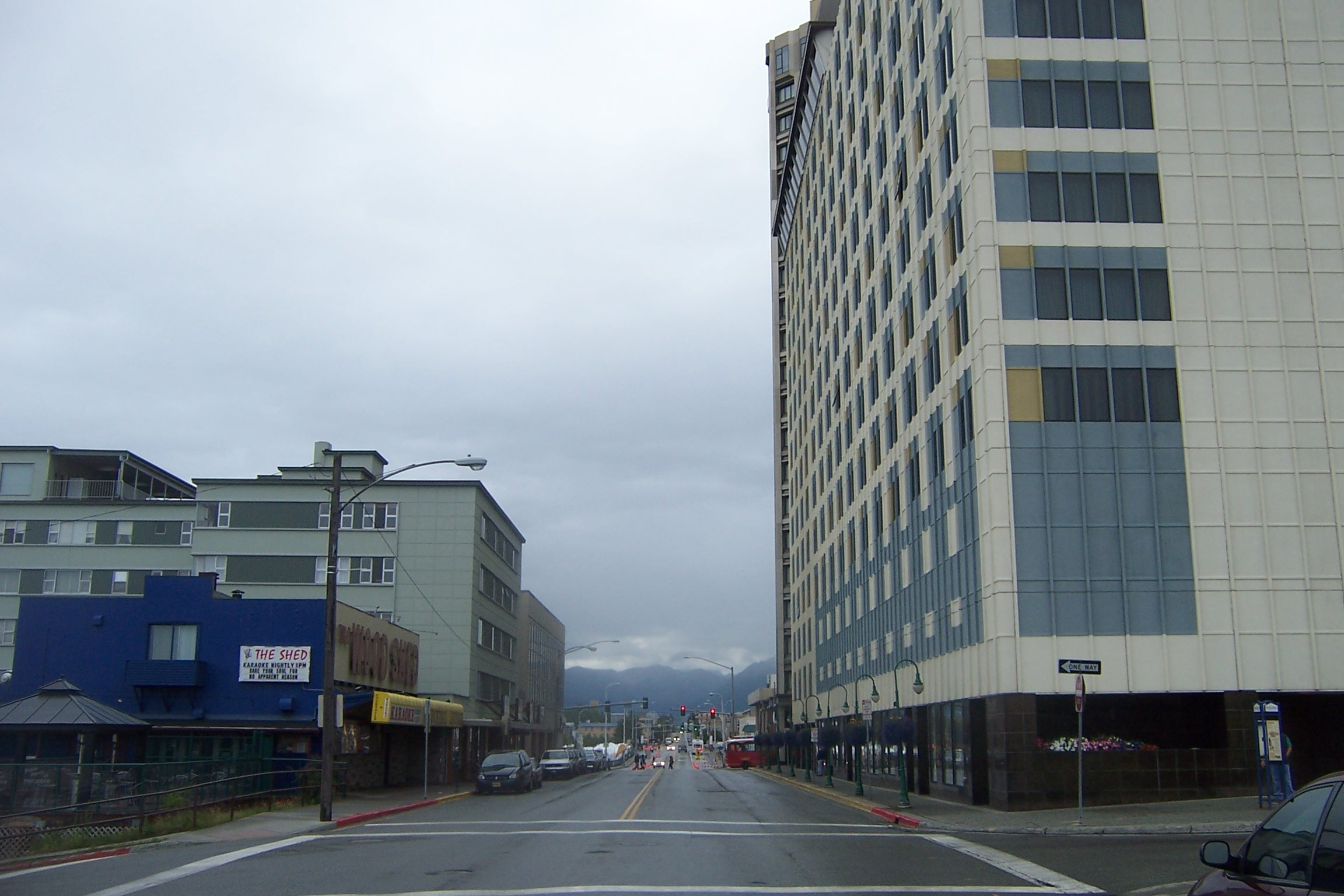 Anchorage, Alaska, looking east along Third Avenue from F Street intersection.